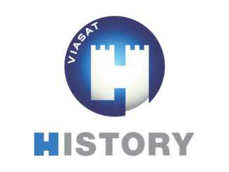 Logo Viasat History, tv channel